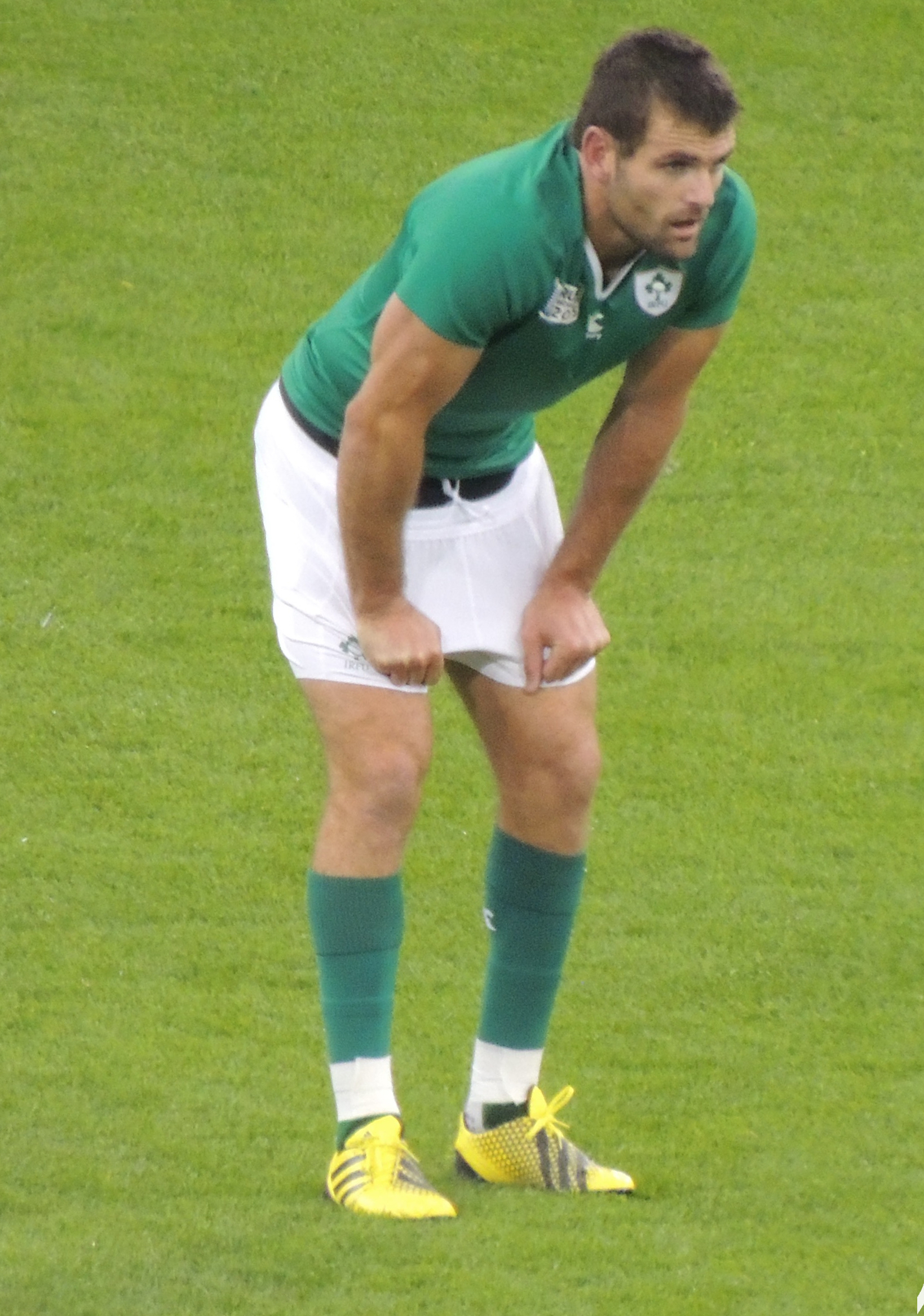 Irish rugby union player Jared Payne playing in 2015 Rugby World Cup game Ireland vs Canada at Millennium Stadium in Cardiff.